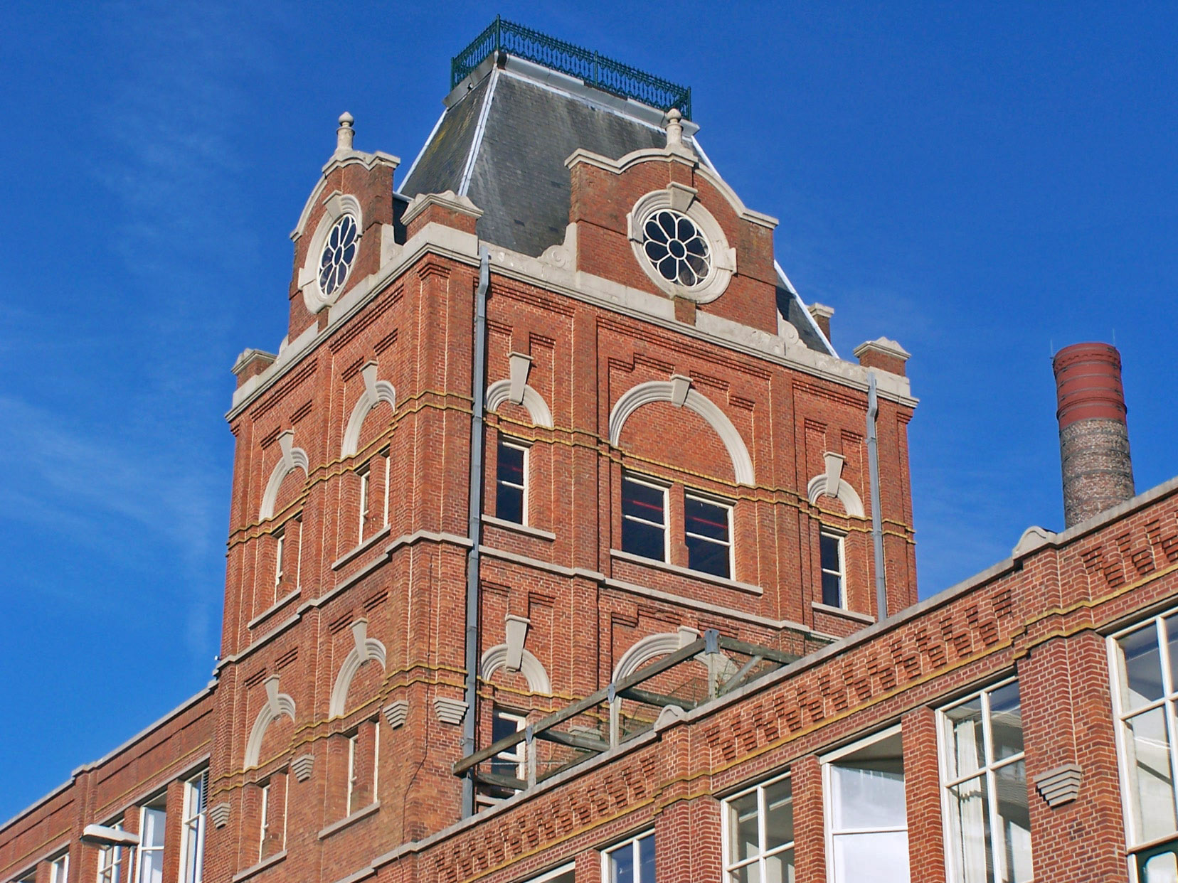 Water tower at the Jannink building in Enschede, Netherlands. Badly retouched.